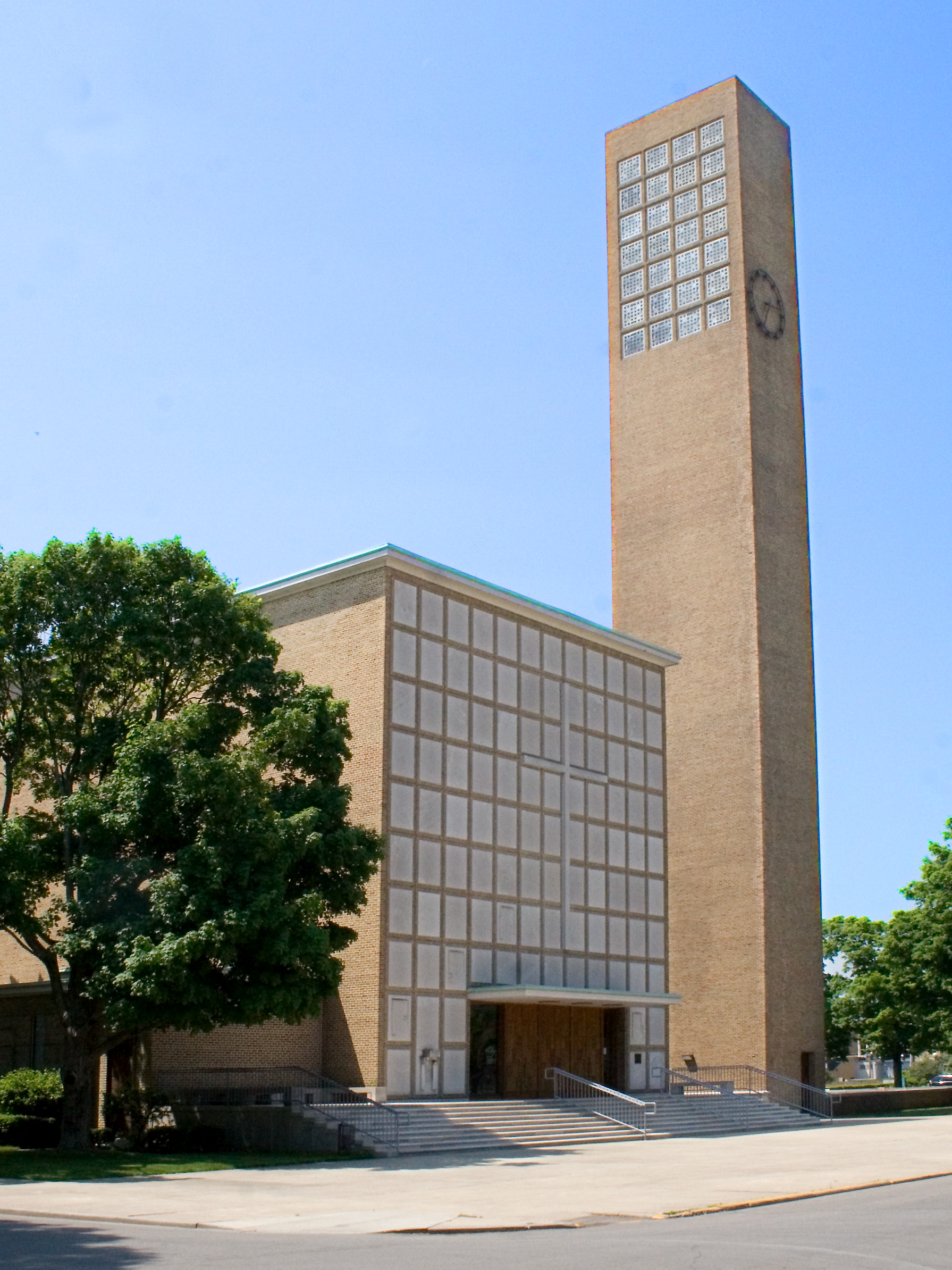 First Christian Church in Columbus Indiana. Designed by Eliel Saarinen. Photo by Greg Hume on 11/12/2005. Greg5030 04:29, 26 February 2007 (UTC)